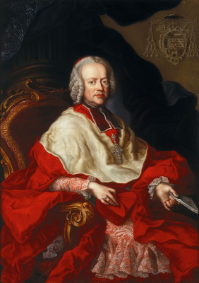 Sigismund von Schrattenbach (1698-1771), Prince-Archbishop of Salzburg